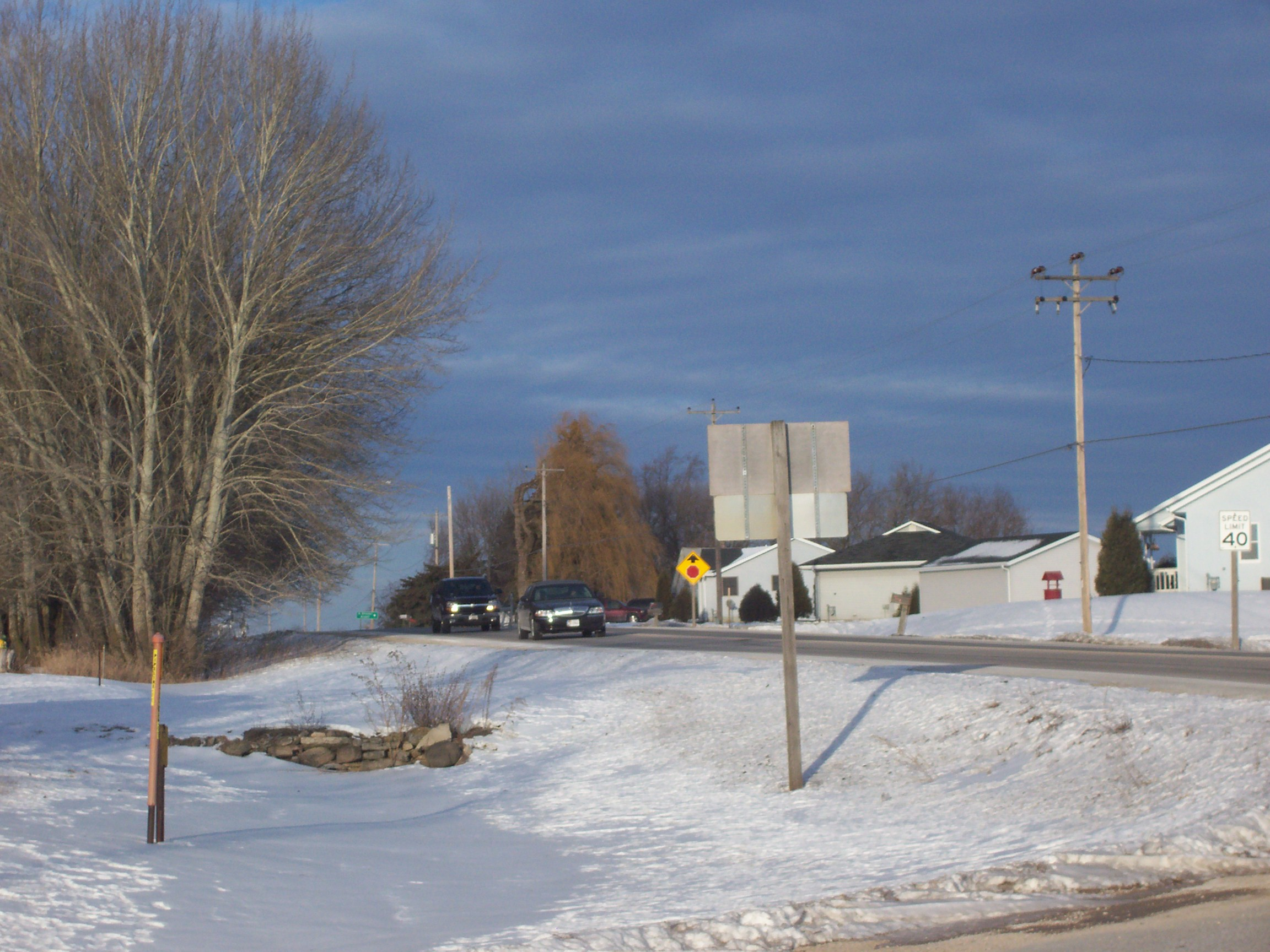 Looking north at houses in Hobart, Wisconsin, USA. Taken February 11, 2007 by myself.